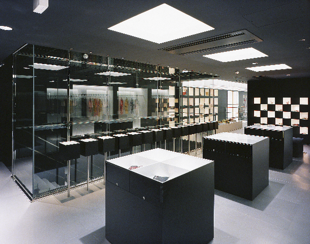 design